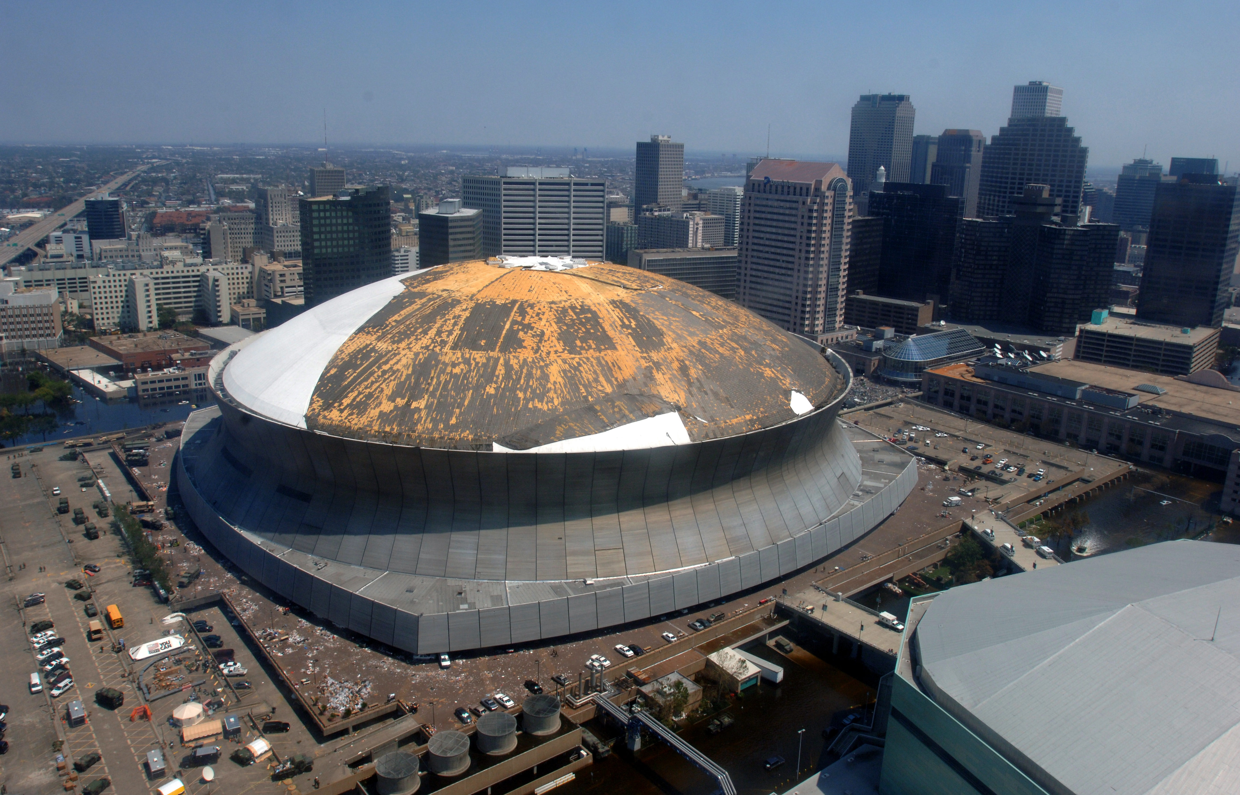 New Orleans, LA, September 4, 2005 -- A view of the roof of the Superdome which was damaged as a result of Hurricane Katrina. Jocelyn Augustino/FEMA